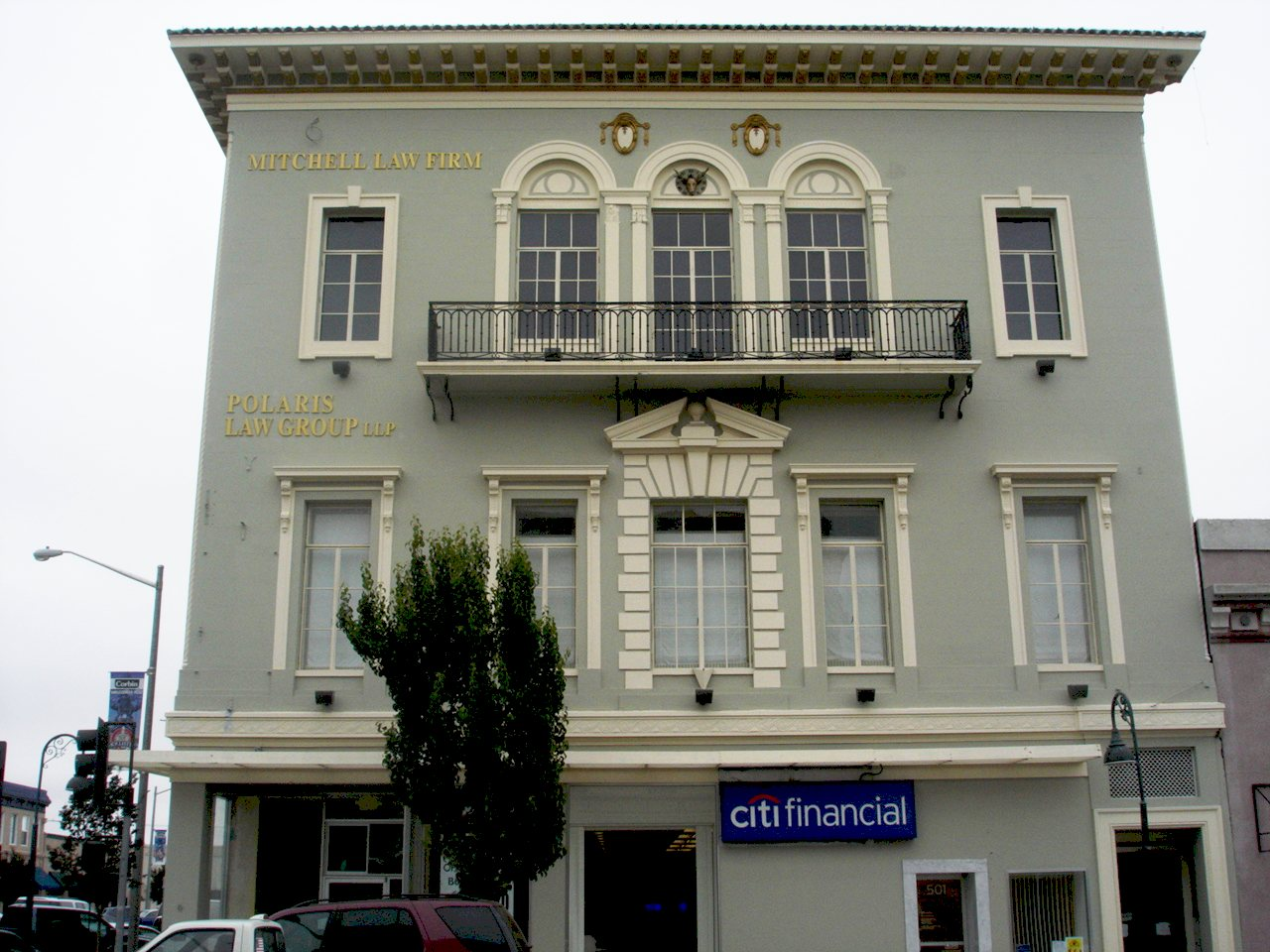 The southeast corner of Fifth and San Benito Streets, Hollister, California.